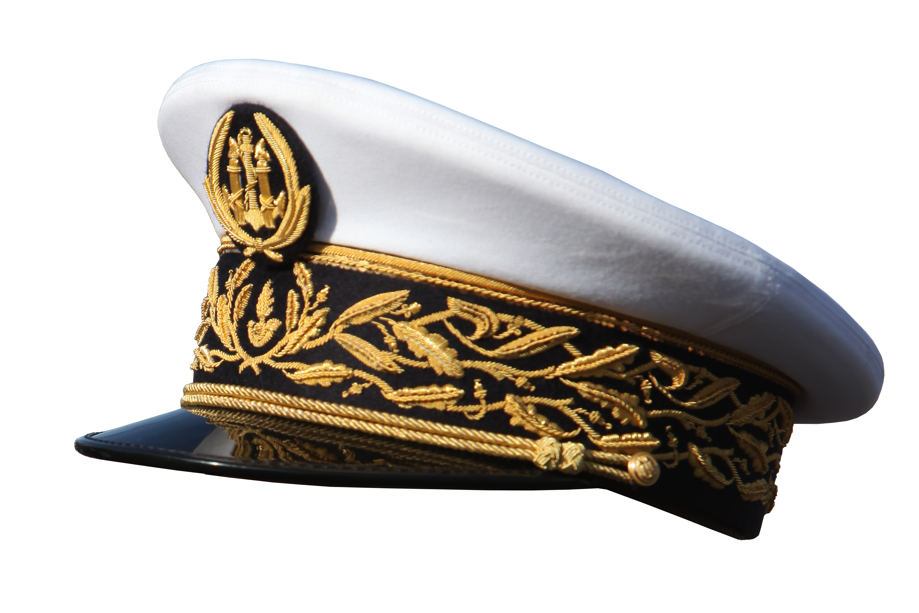 Cap of a French general officer of the custom services